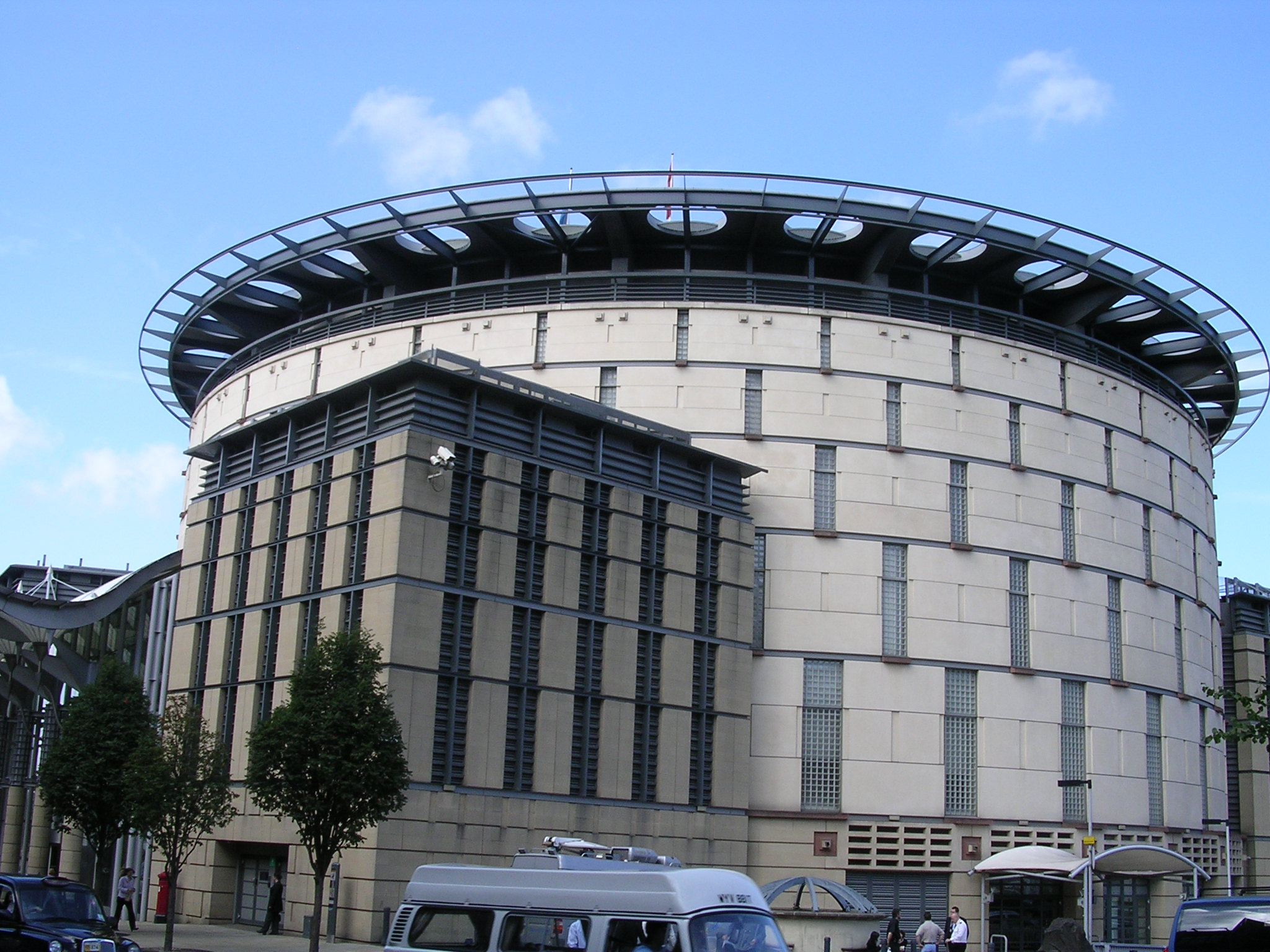 Edinburgh International Conference Centre, Scotland. Photographed by myself 21st August 2006